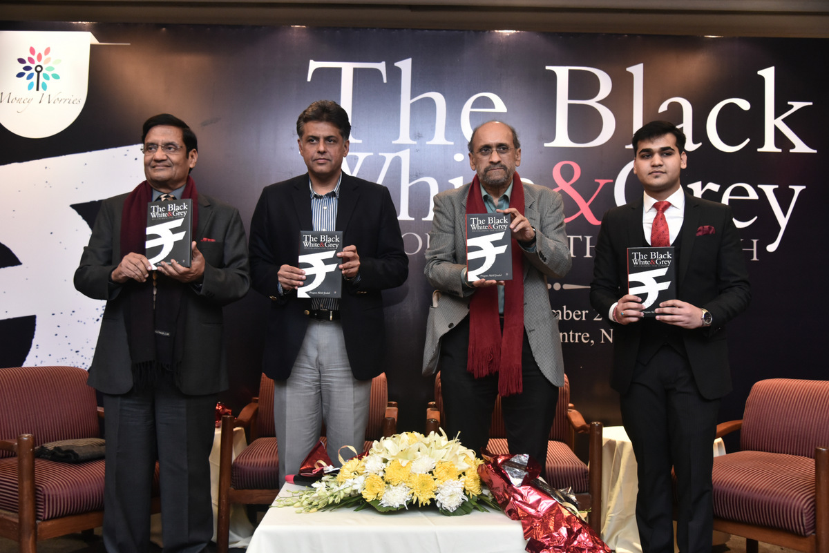 (From L-R) Sudhir Chandra - Manish Tewari - Paranjoy Guha Thakurta - Pragun Akhil Jindal